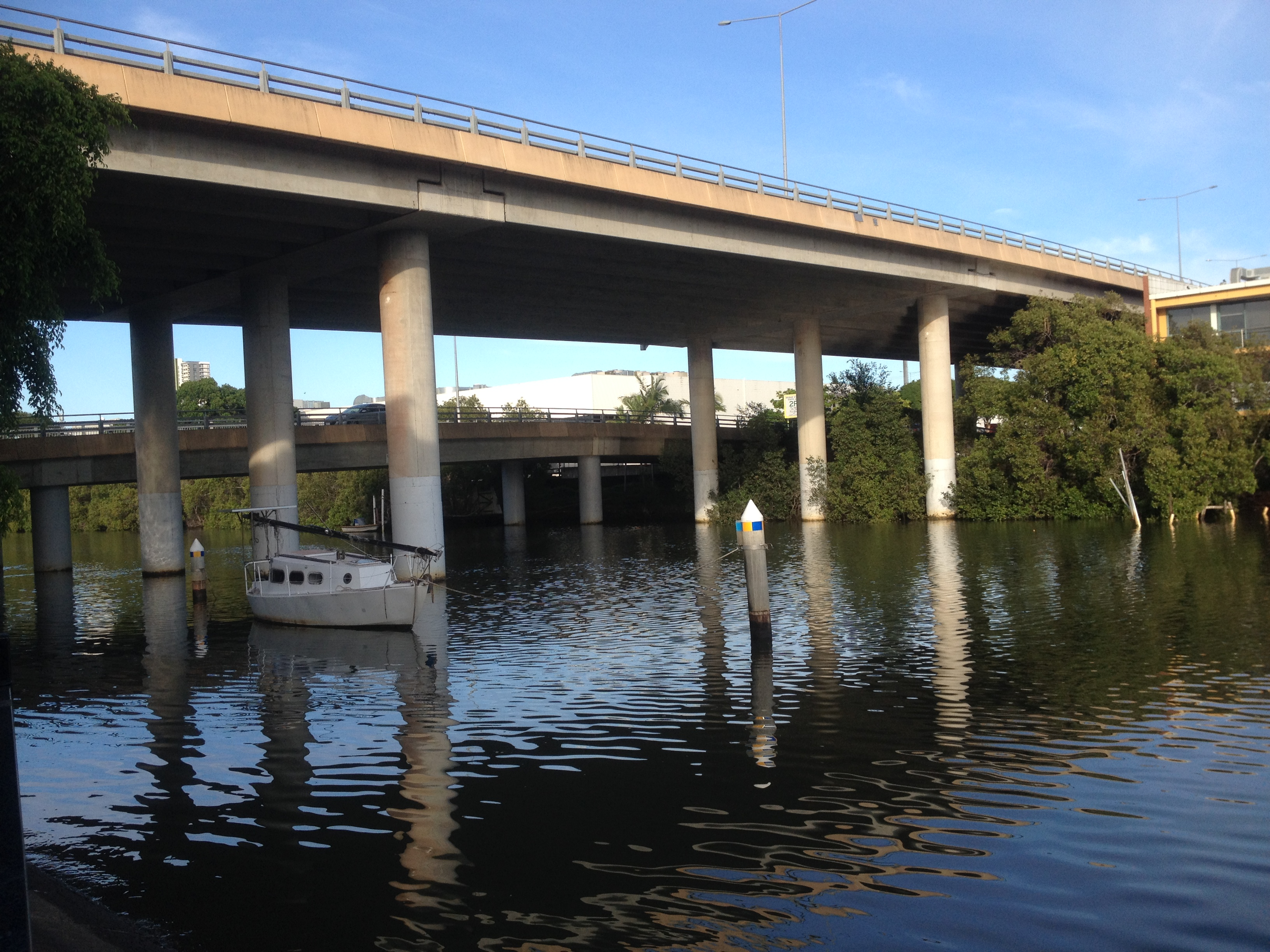 Inner City Bypass viaduct and Allison Street Bridge over the Breakfast Creek in Albion, Brisbane